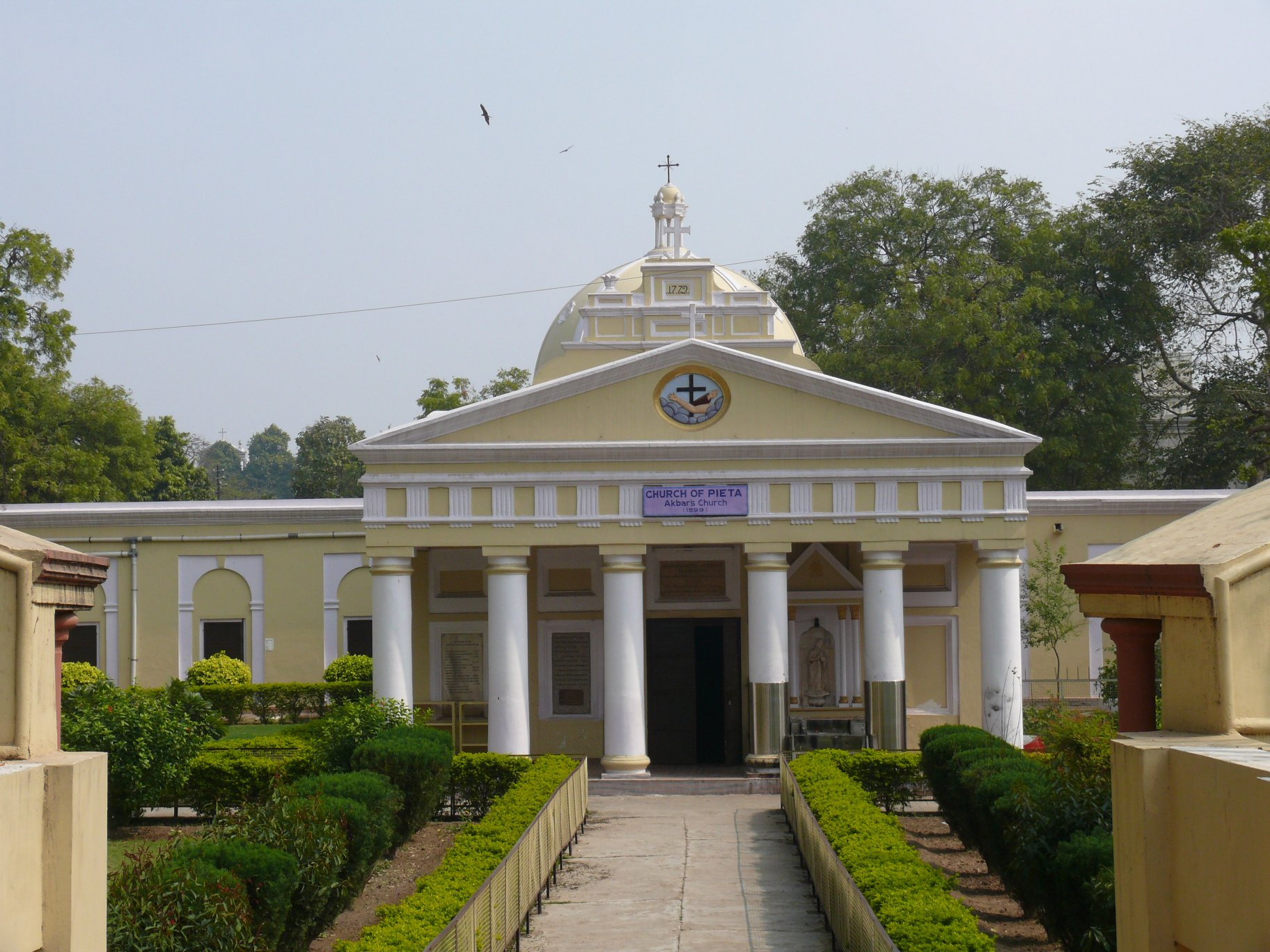 Akbar church, former cathedral of Agra (Uttar Pradesh, India).